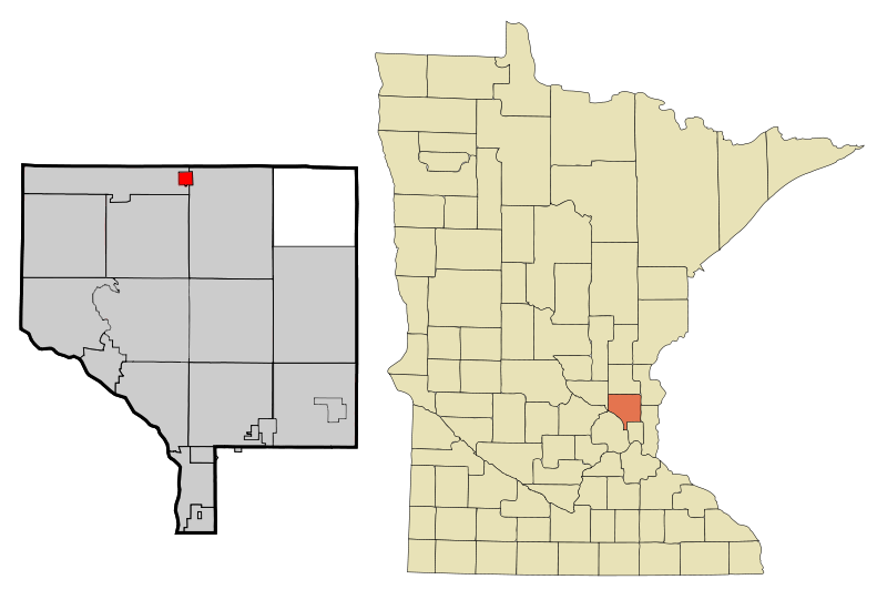 This map shows the incorporated and unincorporated areas in Anoka County, highlighting Bethel in red. This file has been updated to reflect the recent incorporation of new municipalities.